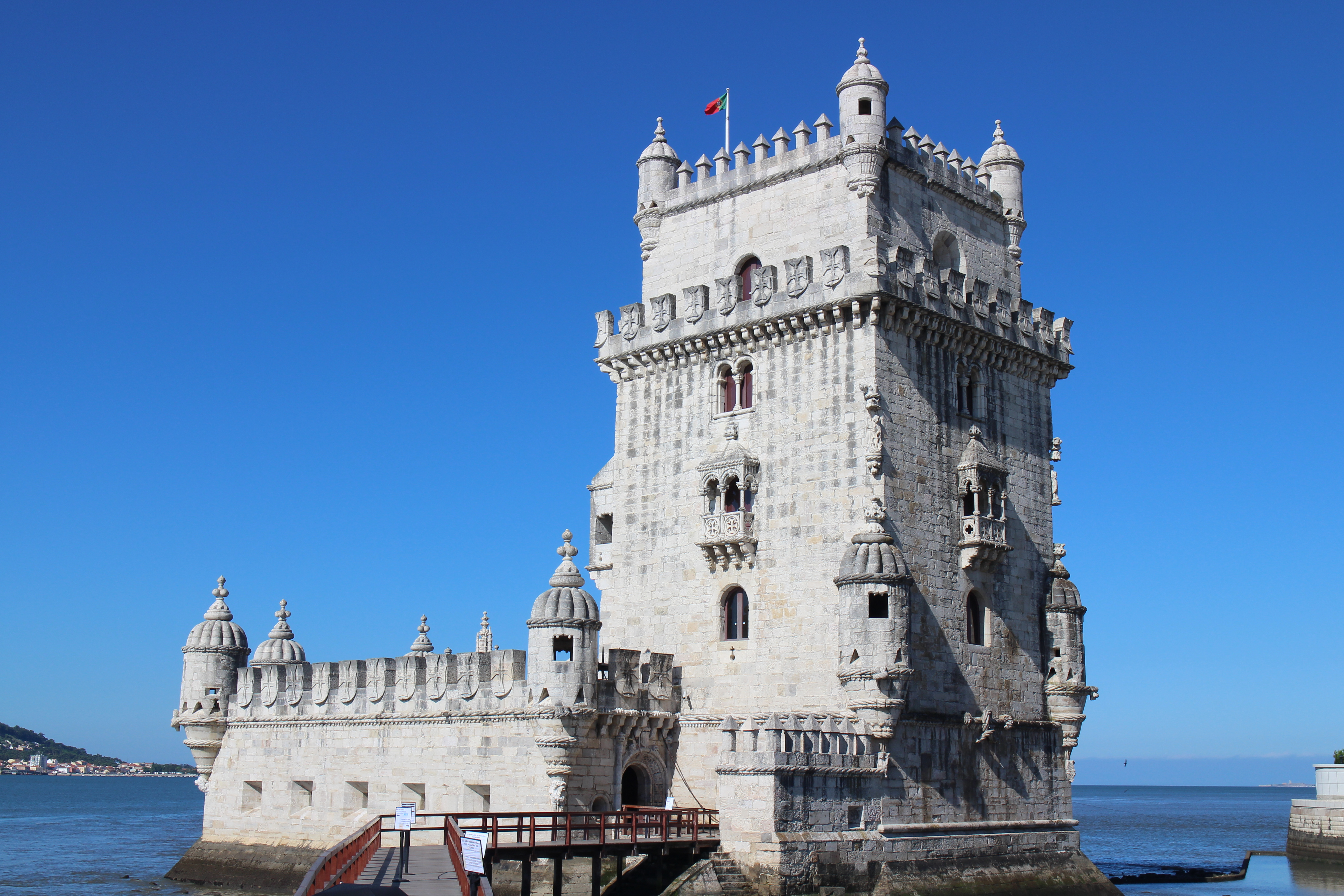 Torre de Belém